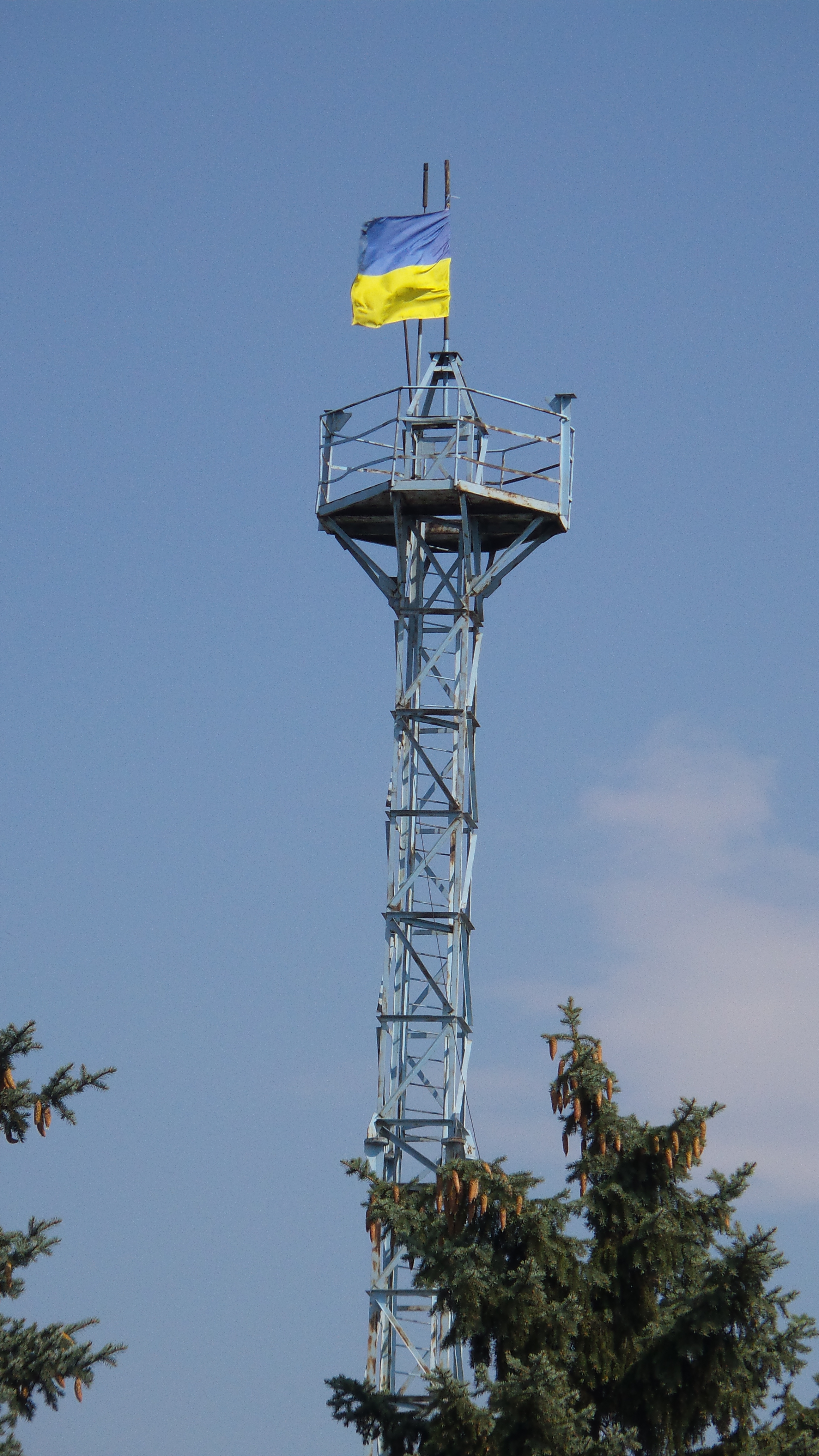 Maryinka, Donetsk region.